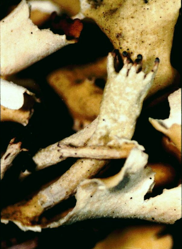 Cladonia turgida Hoffm., 1796 (photograph of a herbarium specimen taken through a dissecting microscope (x15) showing podetia) Loose on soil on acid rock outcrop in conifer woods at the end of Trail's End Road, near shore of Lake Superior, S of confluence with the Montreal River, Ontario, Canada; collected and identified by Richard E. Riefner (No. 81-316, 27 Jun 1981); specimen is now in the Lichen Herbarium of the New York Botanical Garden.